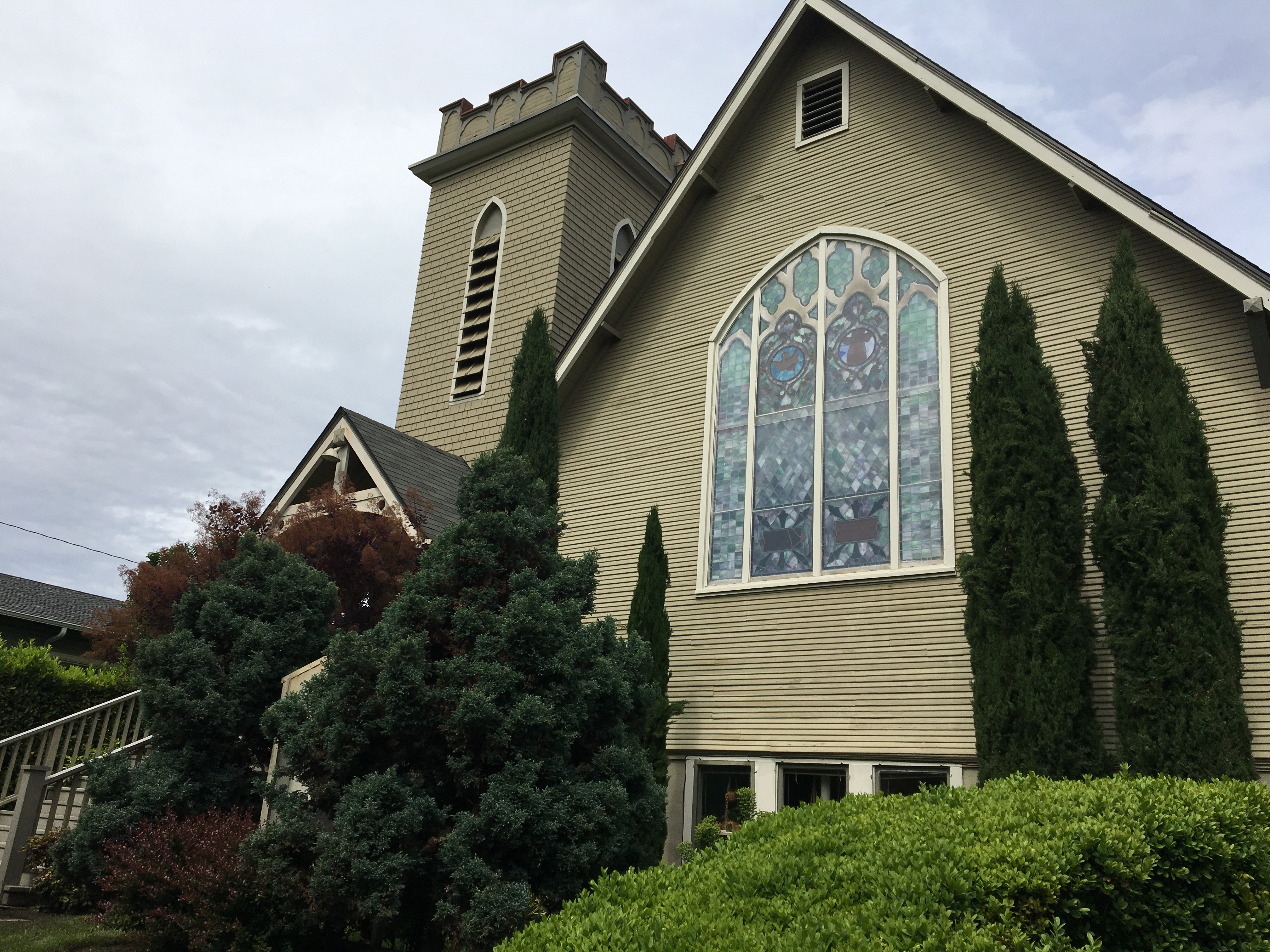 The facade of the Mizpah Presbyterian Chruch which shows its most prominent stain glass window.